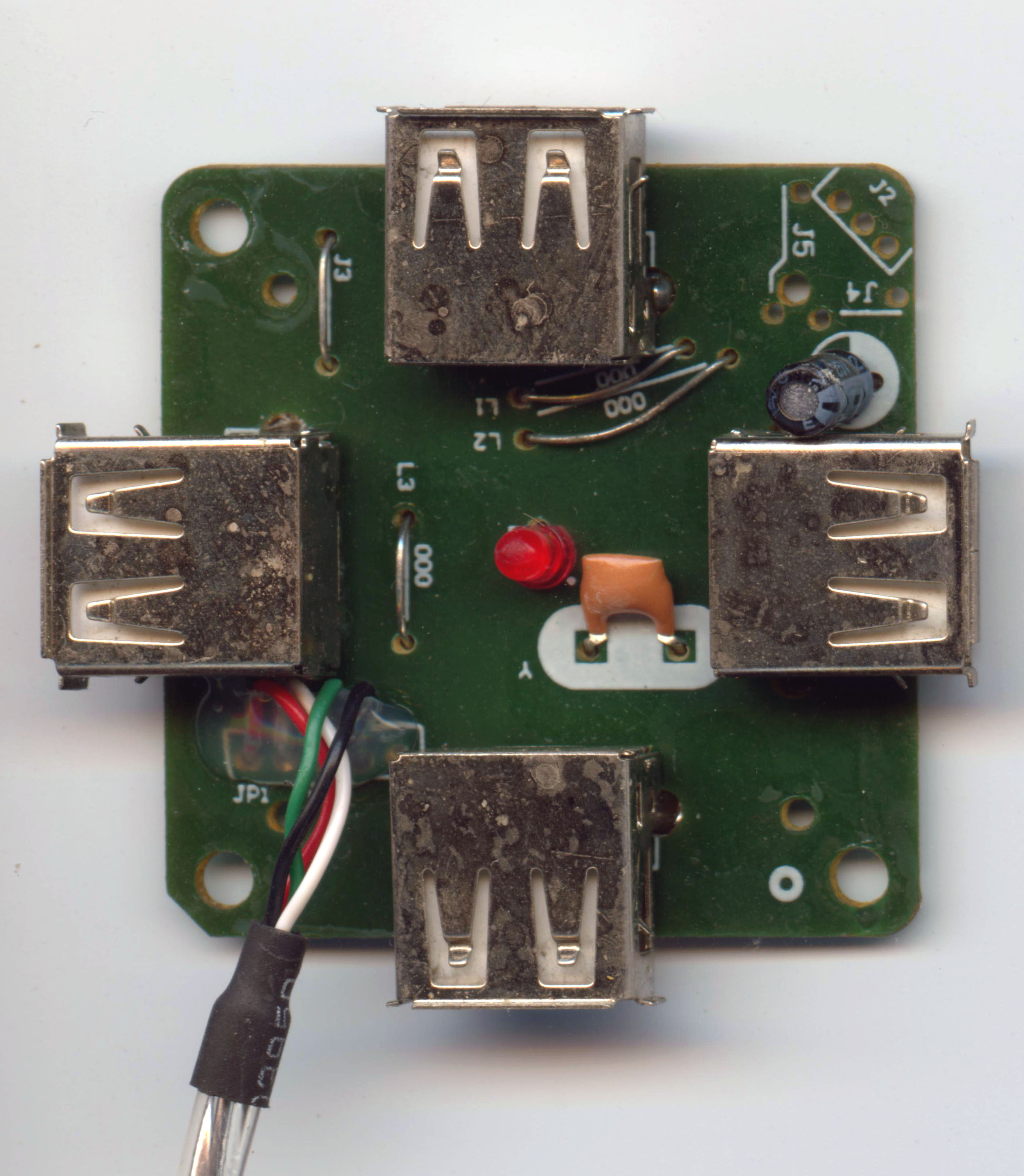 USB Hub Internal Photograph